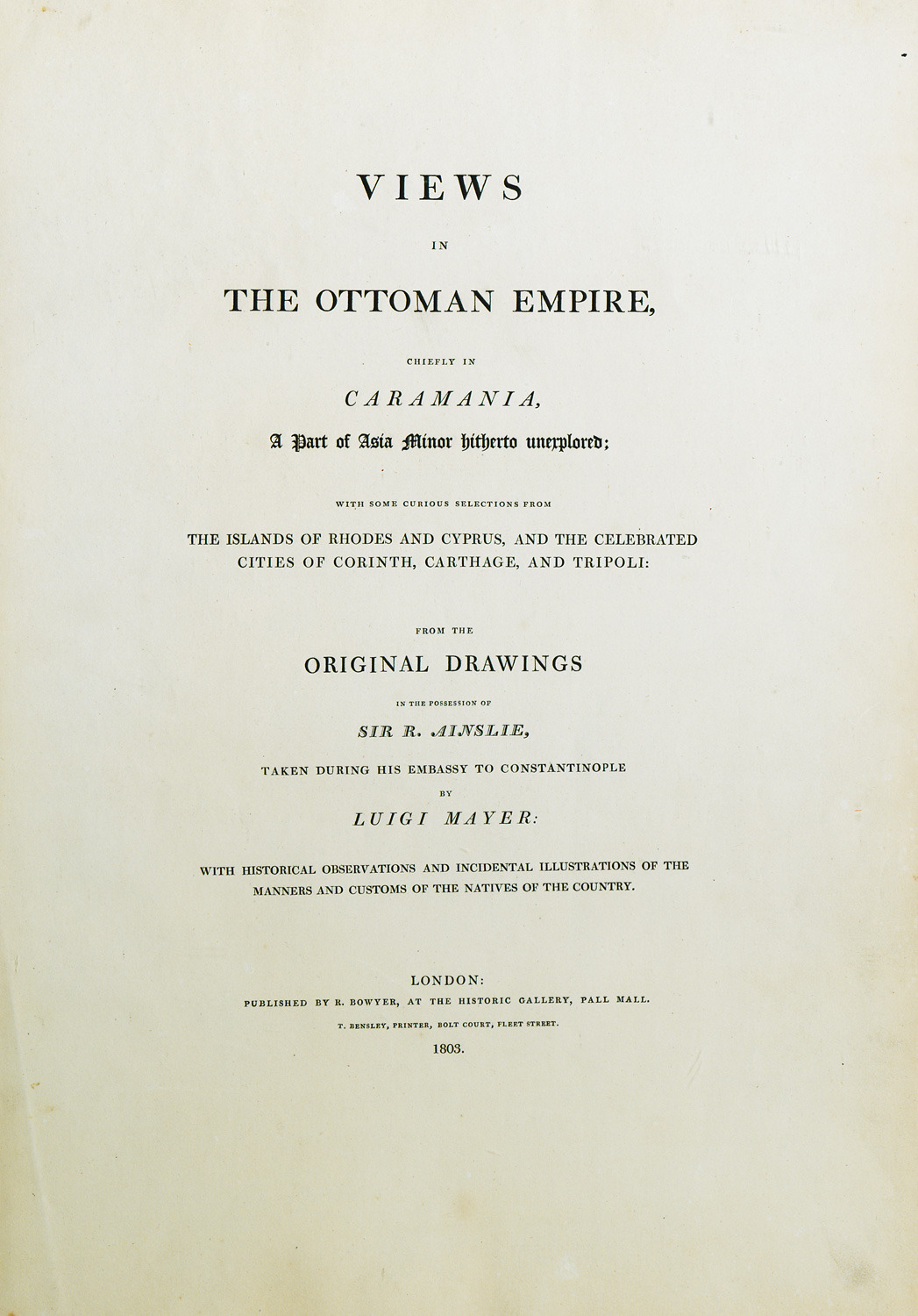 Luigi Mayer. Views in the Ottoman Dominions, in Europe in Asia, and some of the Mediterranean Islands, from the Original Drawings taken for Sir Robert Ainslie by Luigi Mayer, F.A.S. with descriptions historical and illustrative, London, P. Bowyer, 1810.